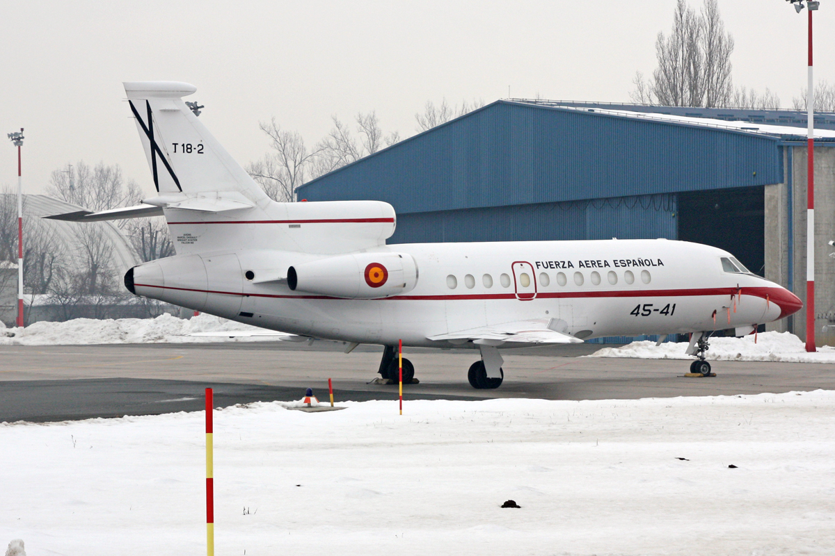 Zagreb airport